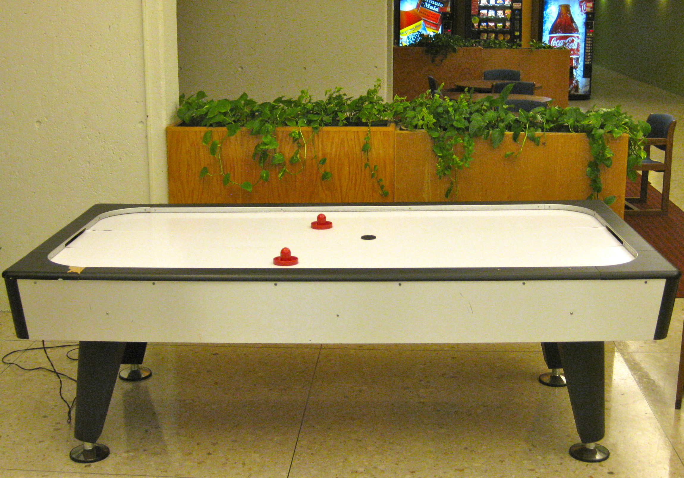 An air hockey table located on the Lower Main floor of Currier House at Harvard University